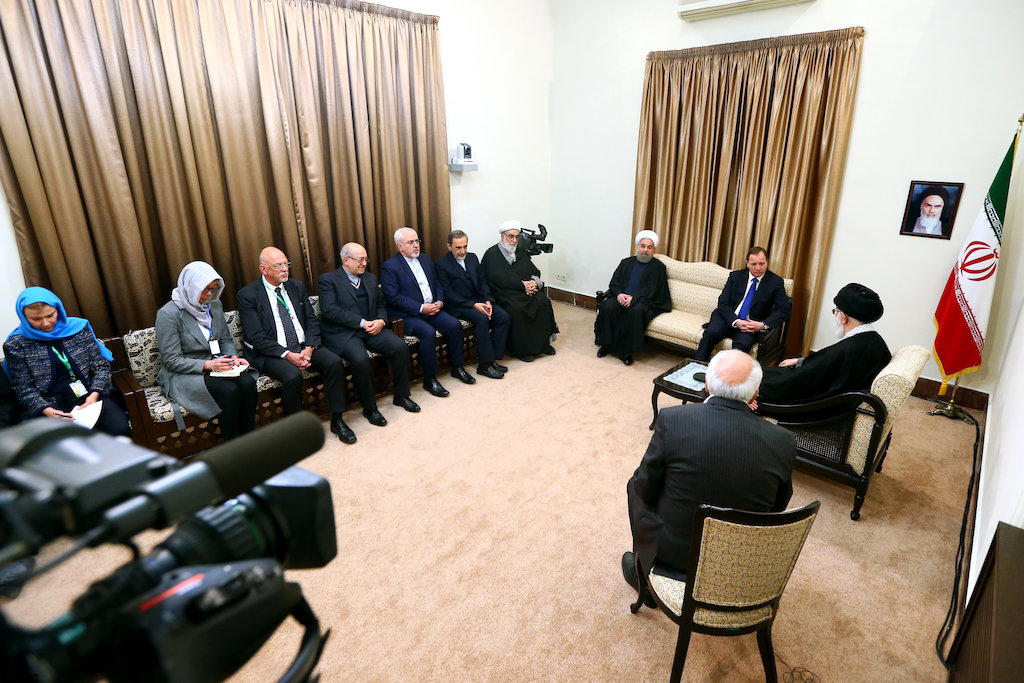 Swedish Prime Minister in meeting with Ali Khamenei, Supreme Leader of Iran, and Iranian President Hassan Rouhani accompanied him